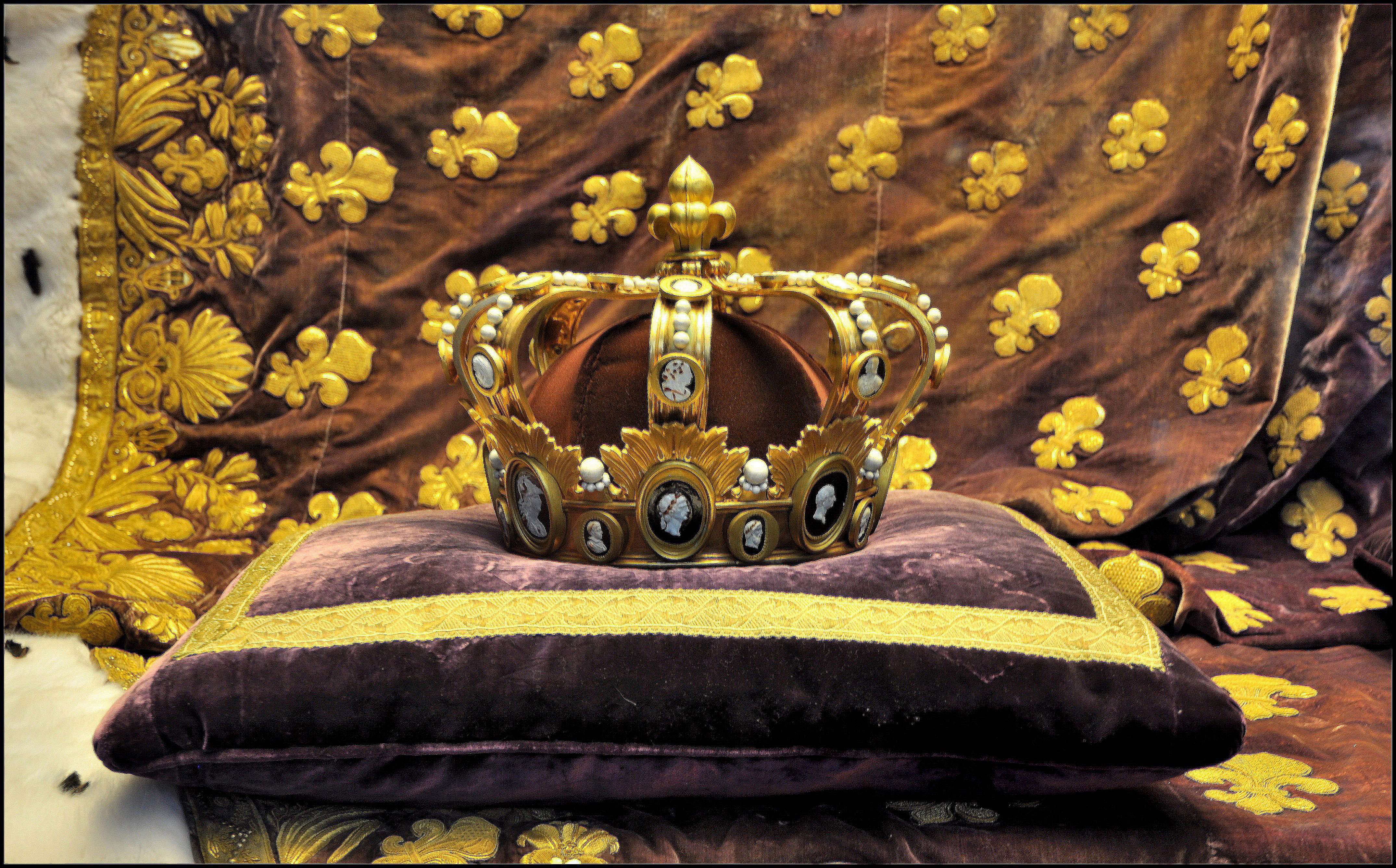 Crown with king Louis XVIII